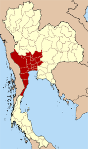 Map depicting the Central Thailand